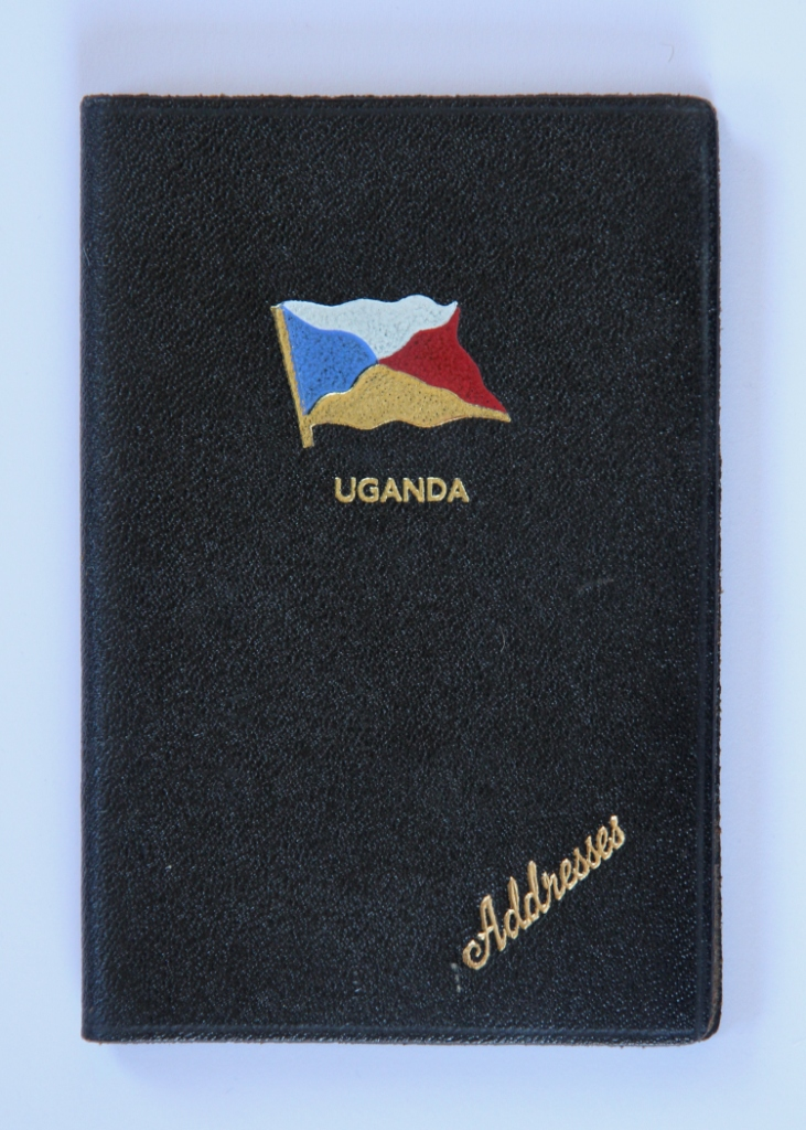 Souvenir address book with the name Uganda and P&O house flag on the cover. P&O presented one to each child passenger on SS Uganda's educational cruises. This example was presented in 1981.